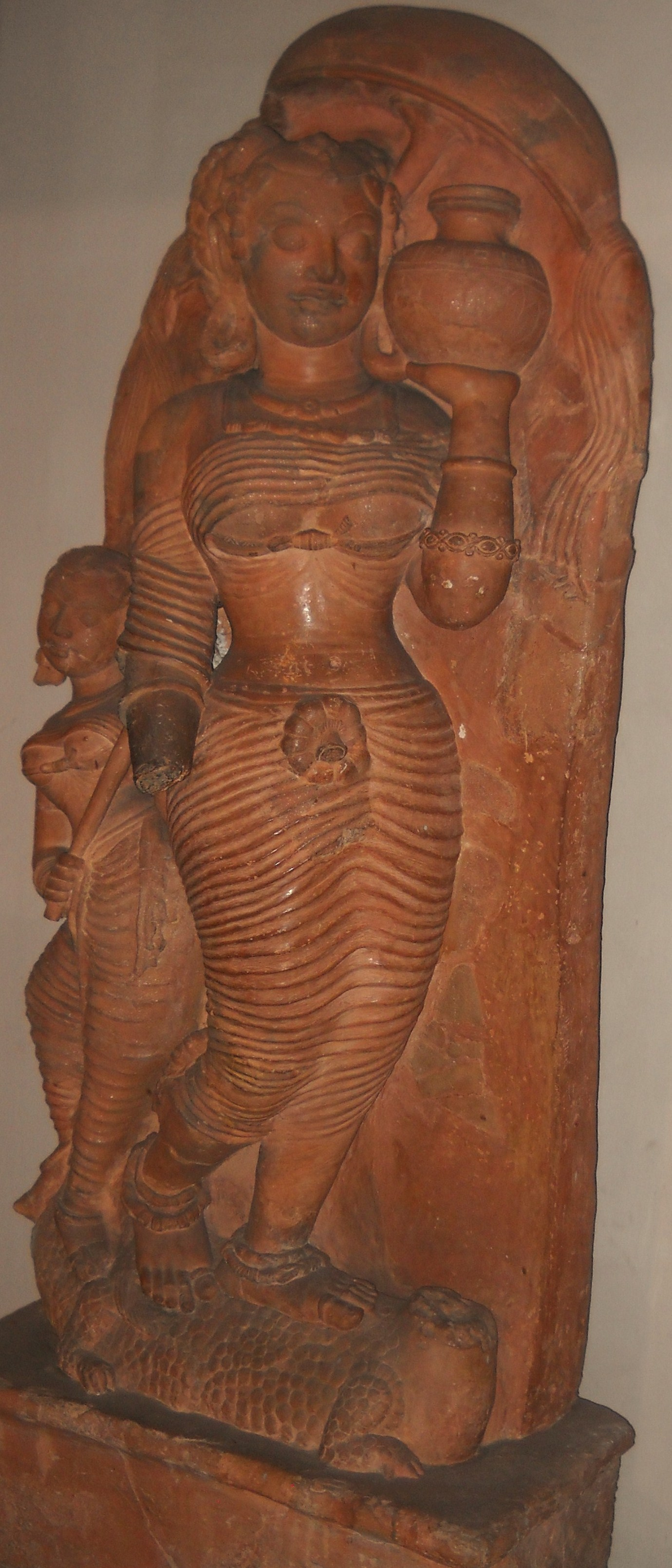 Photograph of the Hindu goddess Ganga, the deified Ganges River, in terracotta from Ahichchhatra, U.P., India, Gupta, 5th century CE. Following iconographic prescription, Ganga stands on her mount, the Makara, a mythological crocodile-like aquatic monster and holds a full pot of water in her hand, while an attendant holds a parasol over her. The dimensions of the art-work are: height: 171 cm (67 in), width: 74 cm (29 in), depth: 40 cm (16 in). From the National Museum of India, New Delhi, taken by Fowler&fowler«Talk» 14:07, 15 May 2011 (UTC)